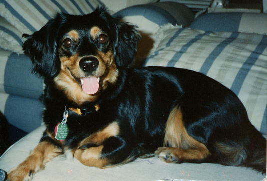 Photo of Small Greek Domestic Dog - Moxy